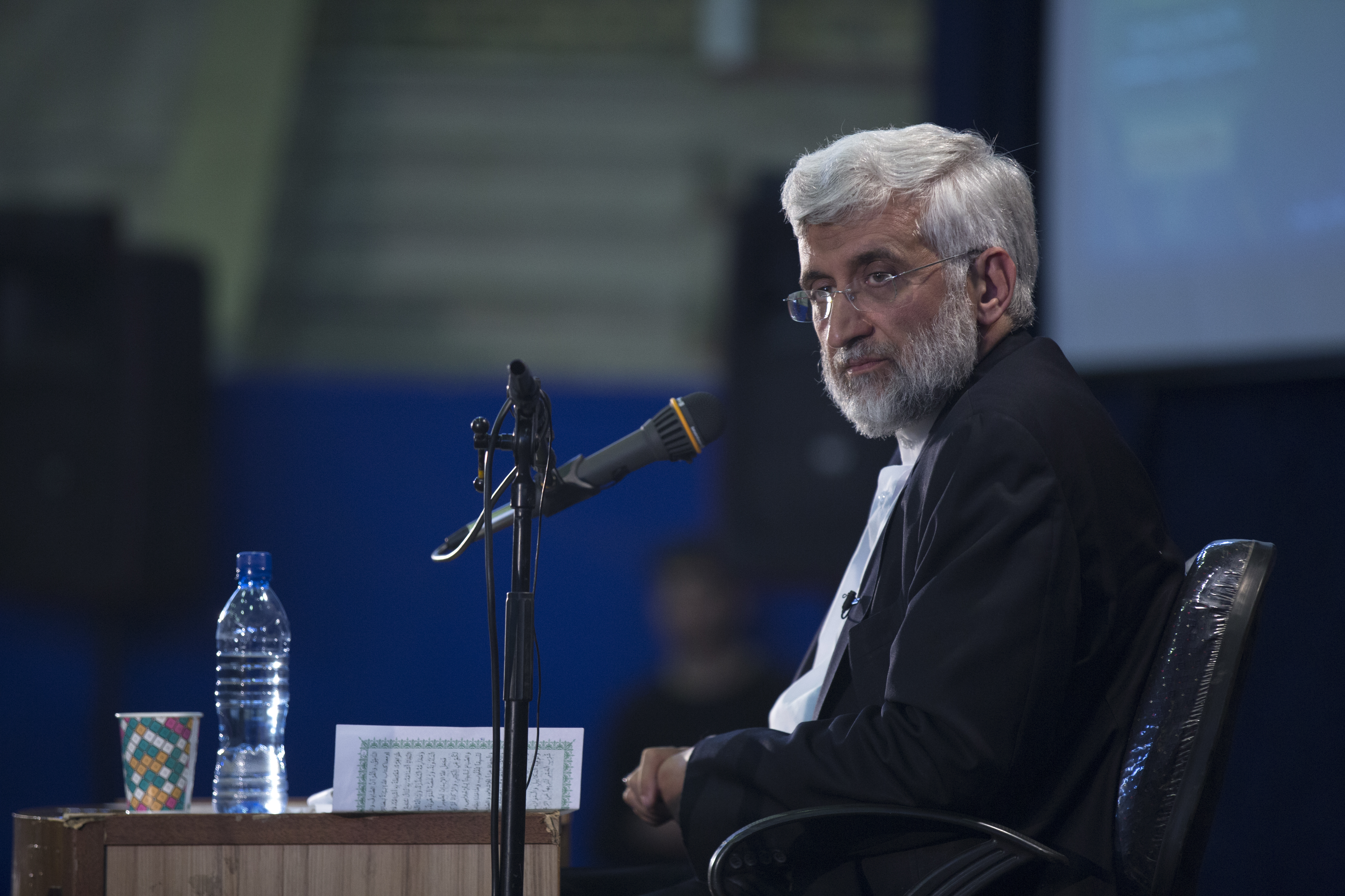 Saeed Jalili is an Iranian conservative politician and diplomat who was secretary of the Supreme National Security Council from 2007 to 2013. He was also Iran's nuclear negotiator. photojournalist: Mostafa Meraji (Wikipedia CC4)